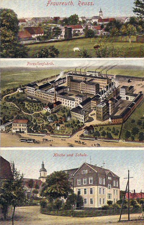 This is a old picture postcard of Fraureuth in Saxony (Germany).